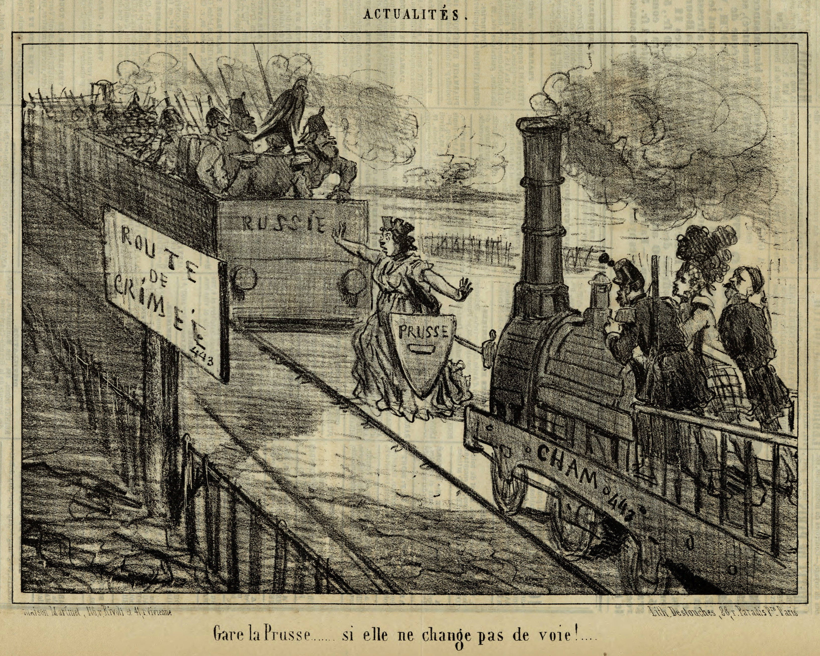 A train full of Russians and a train with three soldiers (an Scotsman (of the British Empire), a Frenchman, and an Ottoman) are on the same track, coming towards each other. The woman Prussia stands in the middle with her arms outstretched.